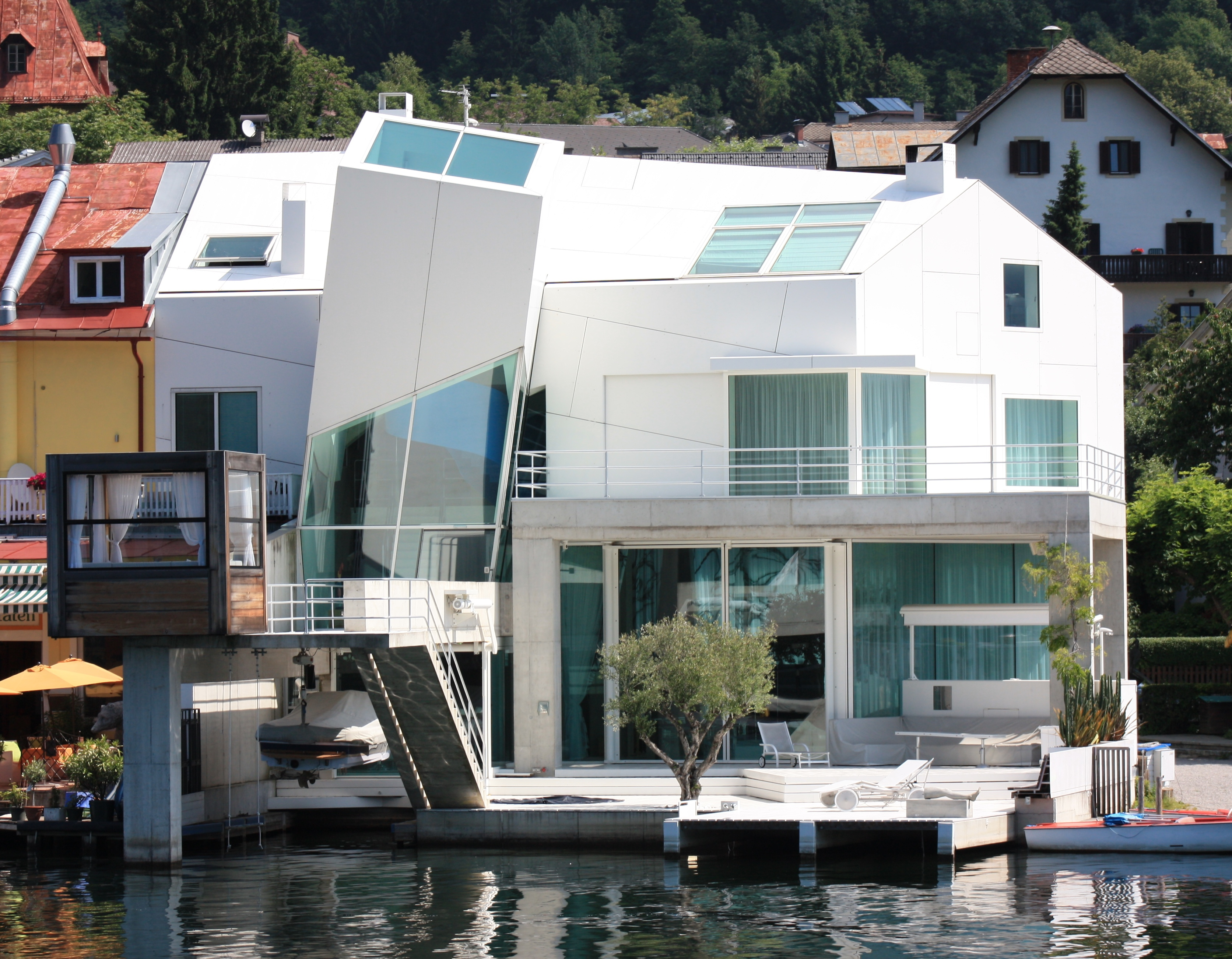 Villa Soravia - Architect: Coop Himmelb(l)au Prix Locality: Millstatt Community:Millstatt